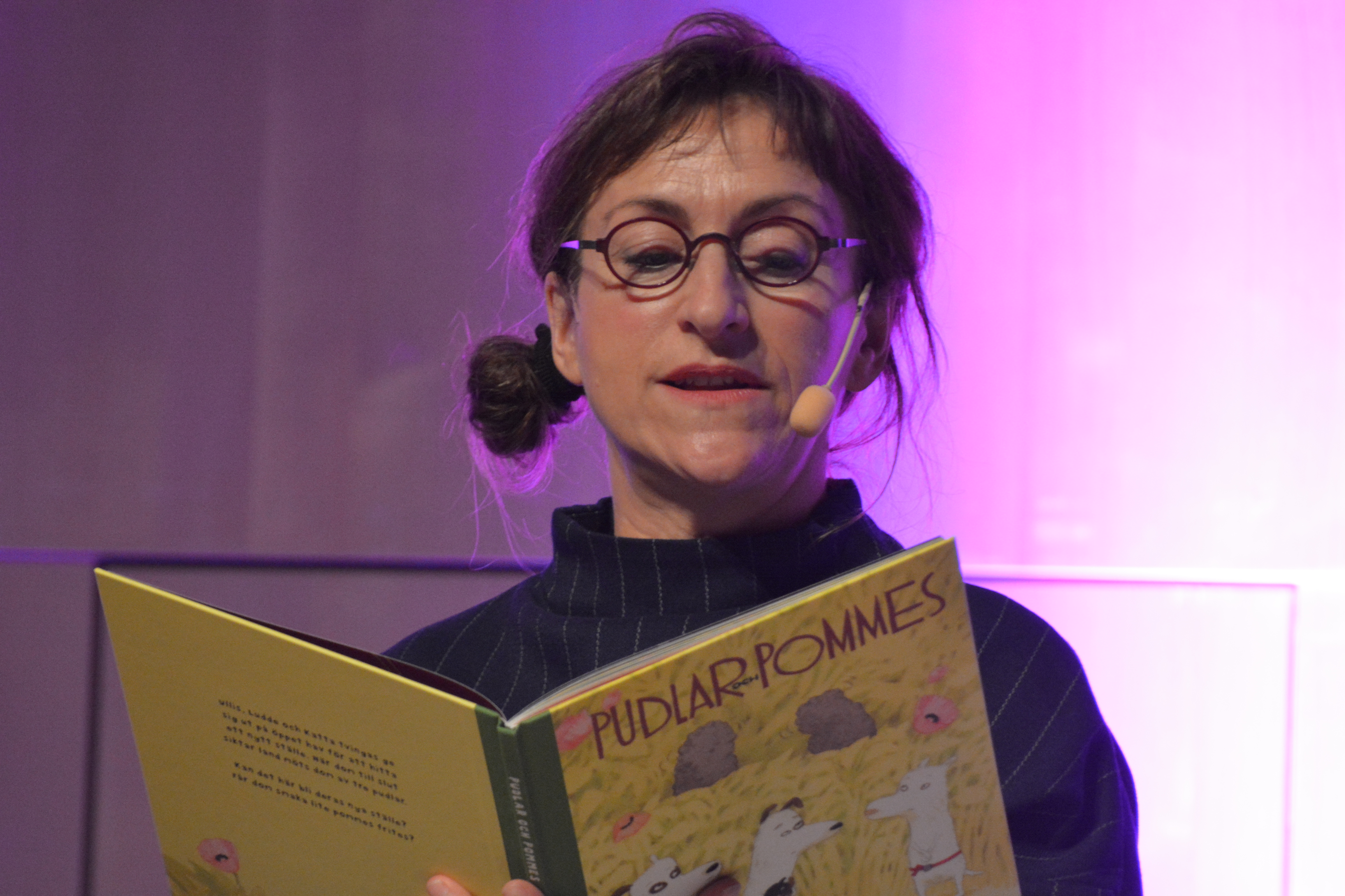 Pija Lindenbaum på Bokmässan 2016